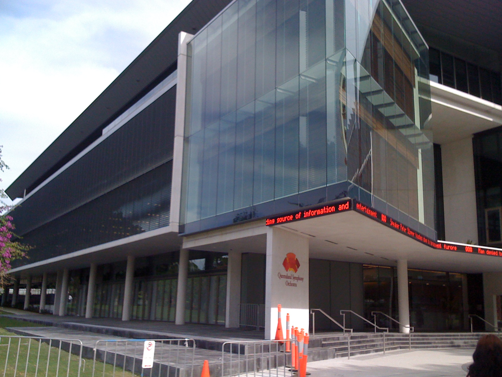 Queensland Symphony Orchestra Studios in South Bank, Qld